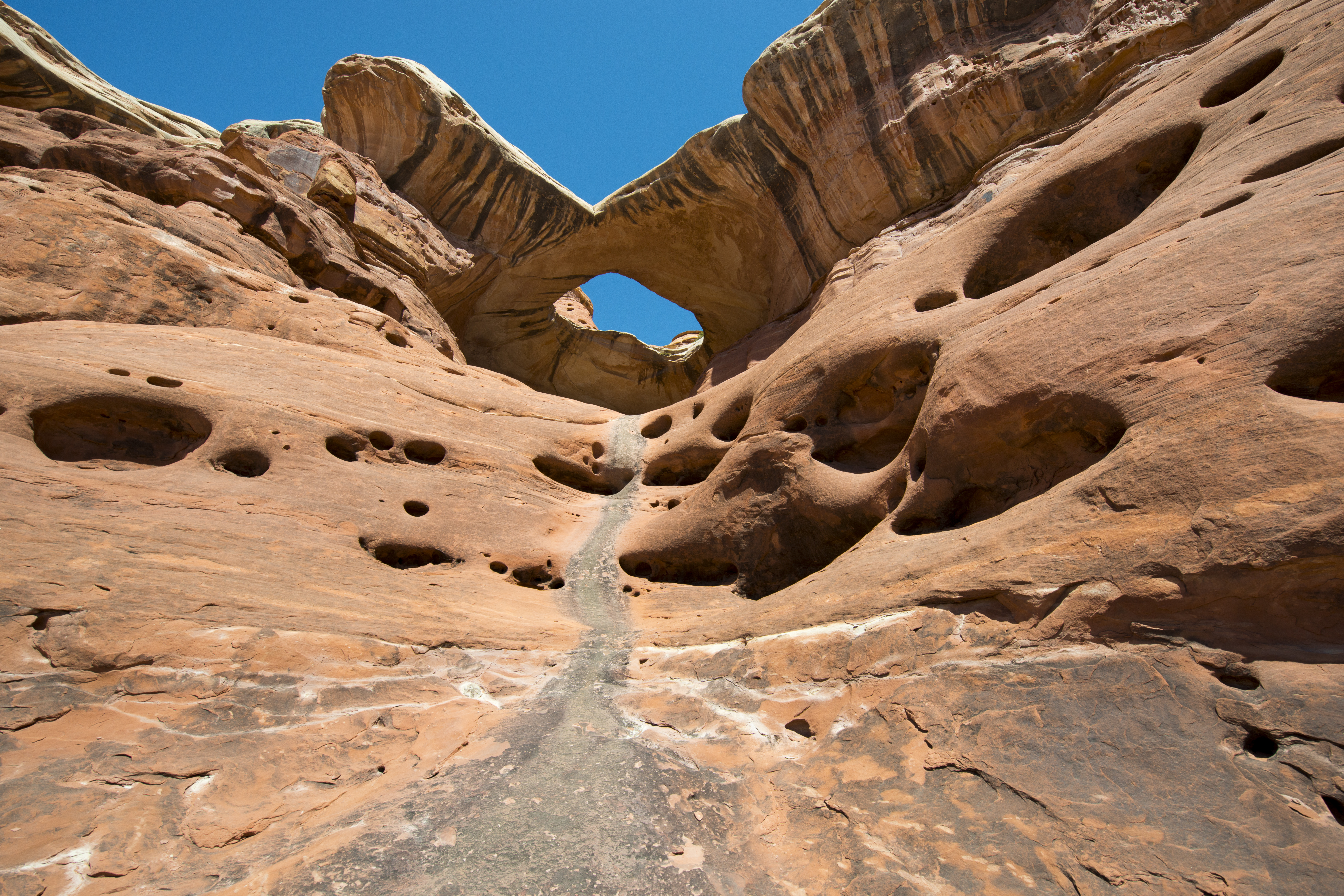 (NPS photo by Neal Herbert)